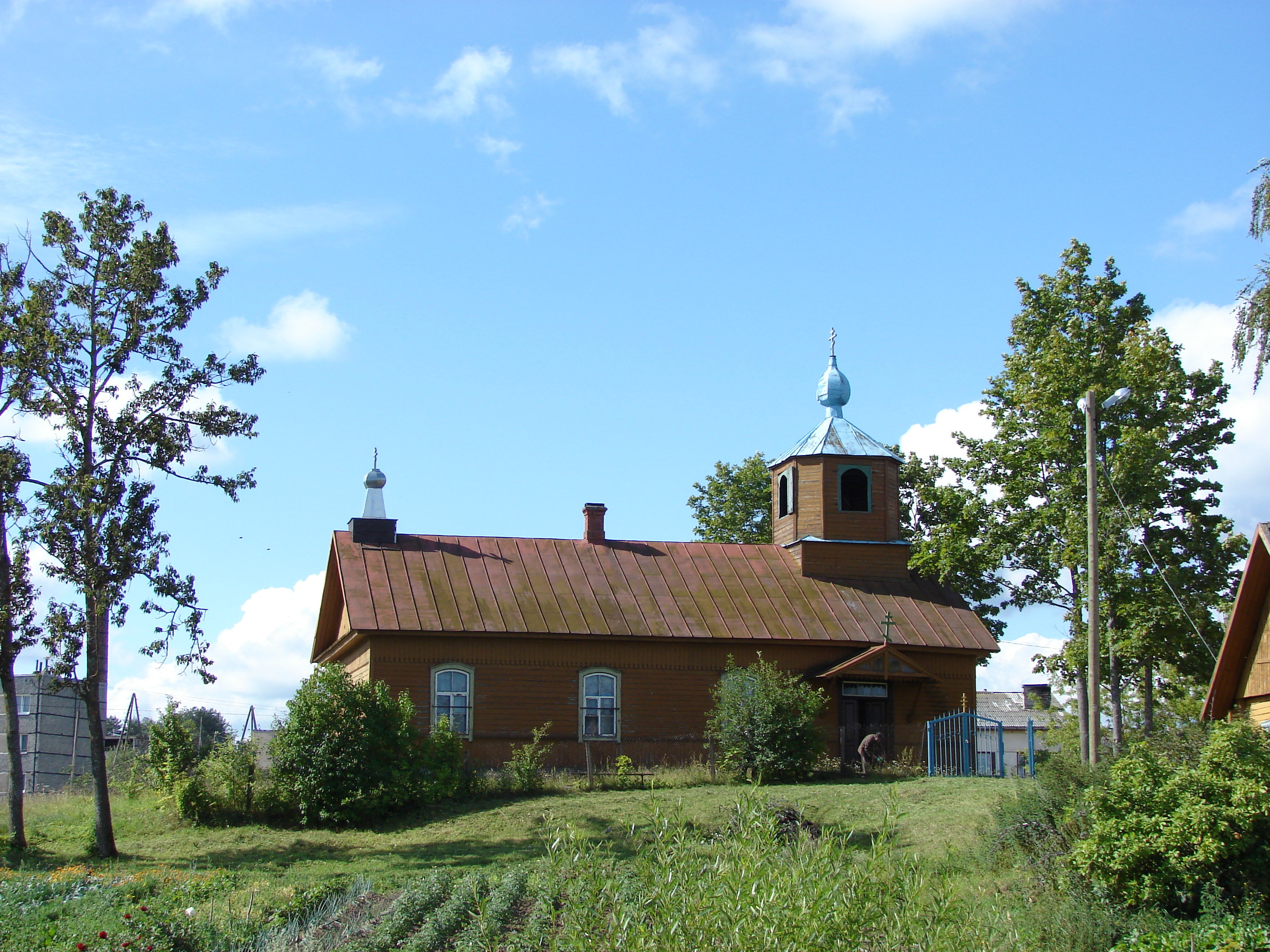 Lipuški Old Believers Prayer Center